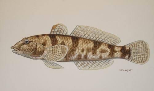 A drawing of the Western tubenose goby (Proterorhinus semilunaris).